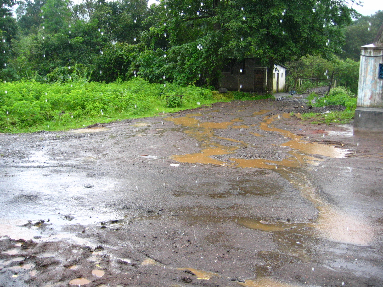 Raindrops dripping off a roof in rural Maharashtra after a monsoon shower. Greenery, dirt road and a small house can also be seen.